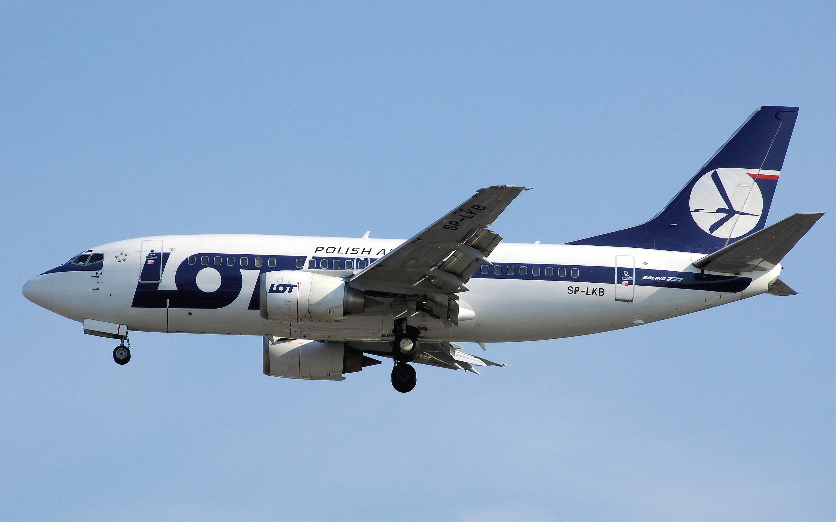 LOT Polish Airlines Boeing 737-500 (SP-LKB) lands at London Heathrow Airport.